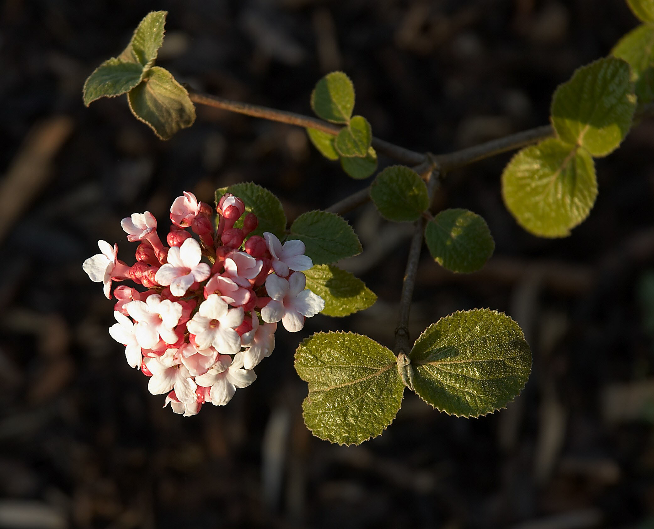 Korean Spice Viburnum. Belgium.